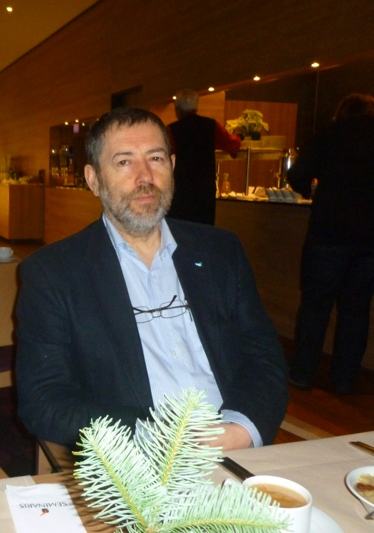 I took this photo at a meal break during the Berlin symposium on the Kushans in Dec. 2013.